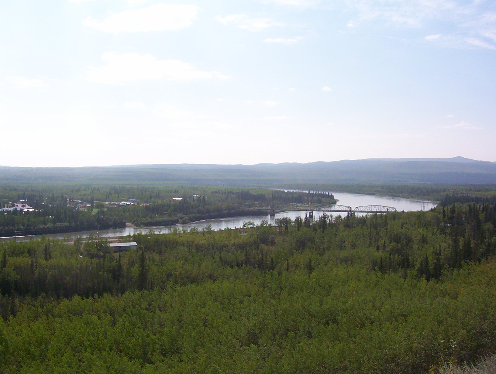 A bridge across the Pelly River at Pelly Crossing, Yukon, Canada. Picture taken August 14th, 2005 by Janothird